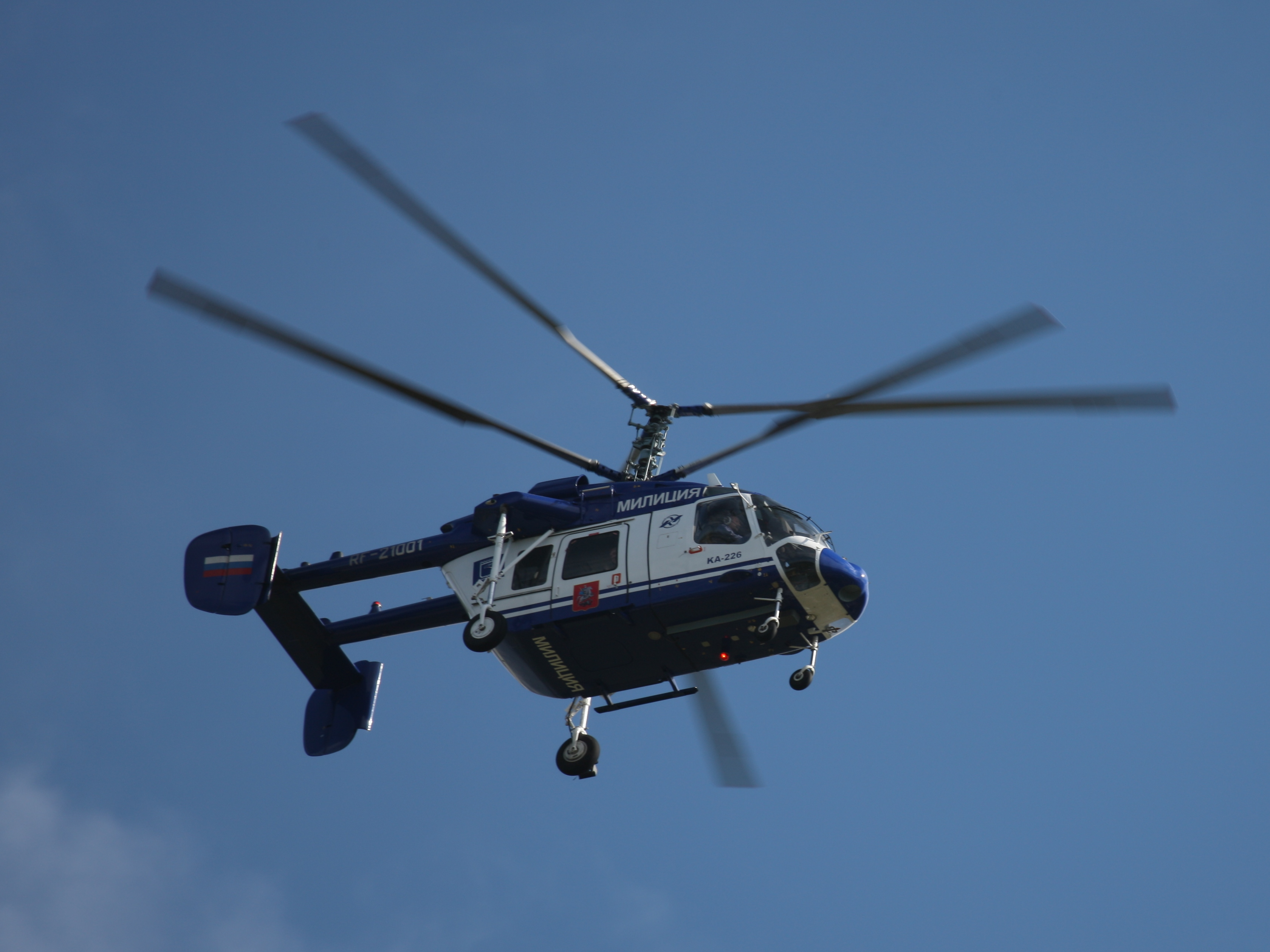 Kamov Ka-226 'Sergei', Russian Militia Service of Moscow (Police Helicopter), reg. no. RF-21001. As seen in Tomilino